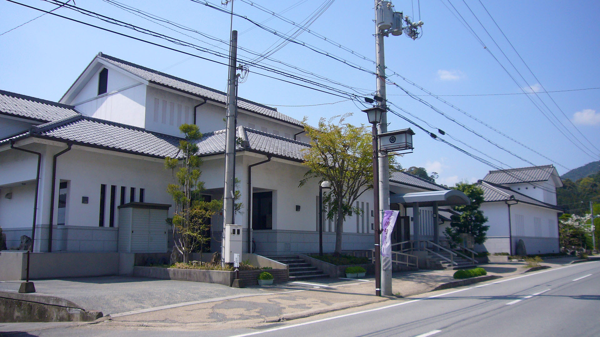 Kaibara-cho Historical Museum and Den-Sutejyo Memorial in Tamba, Hyogo prefecture, Japan